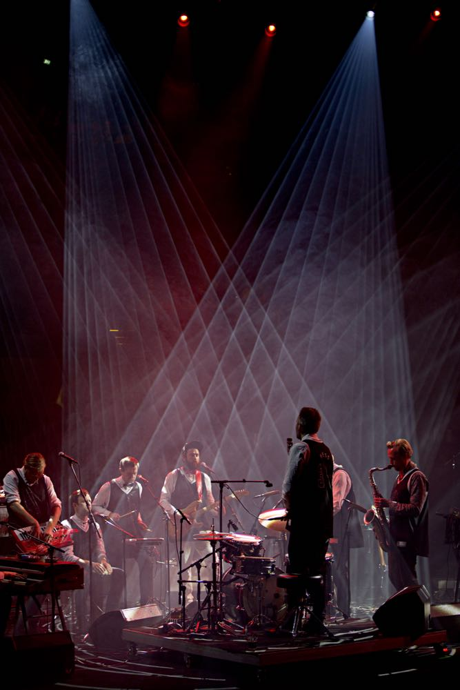 Hess Is More, Live at Sound Of Copenhagen, 2014